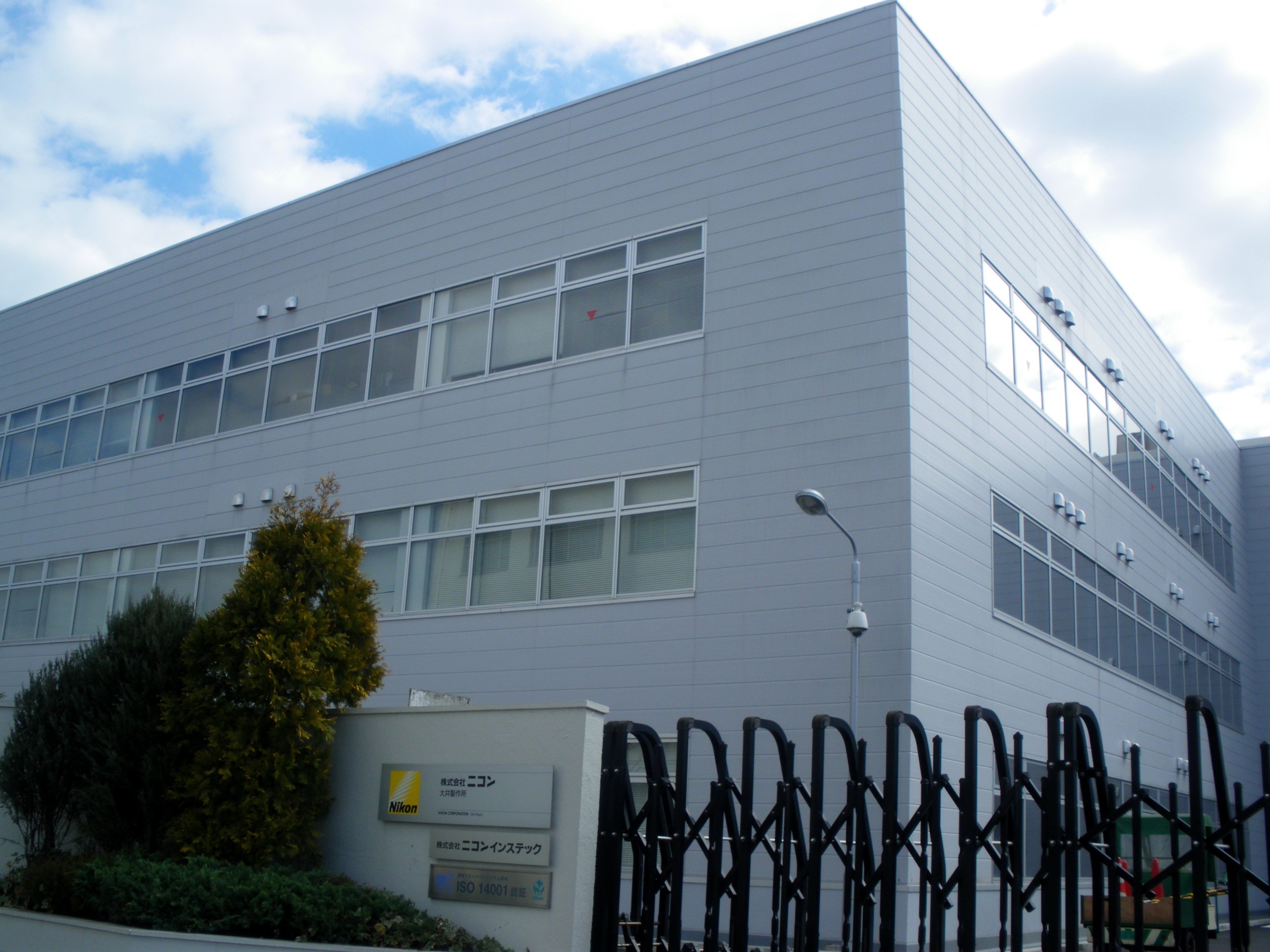 Nikon Oi Factory(Nishioi,Shinagawa,Tokyo)